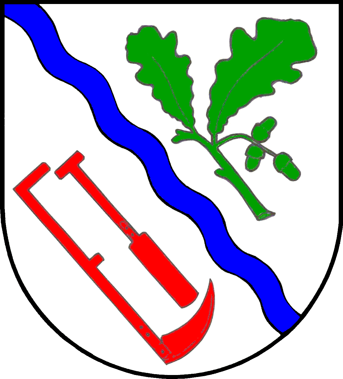 Coat of arms of the municipality Neuberend in Schleswig-Holstein, Germany.